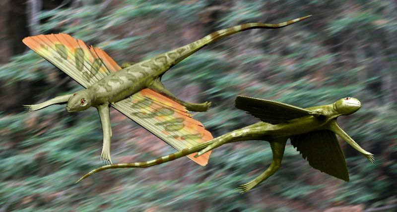 Kuehneosaurus latus (right) and Kuehneosuchus latissimus (left), two lepidosauromorphs from the Late Triassic of Britain. Digital.